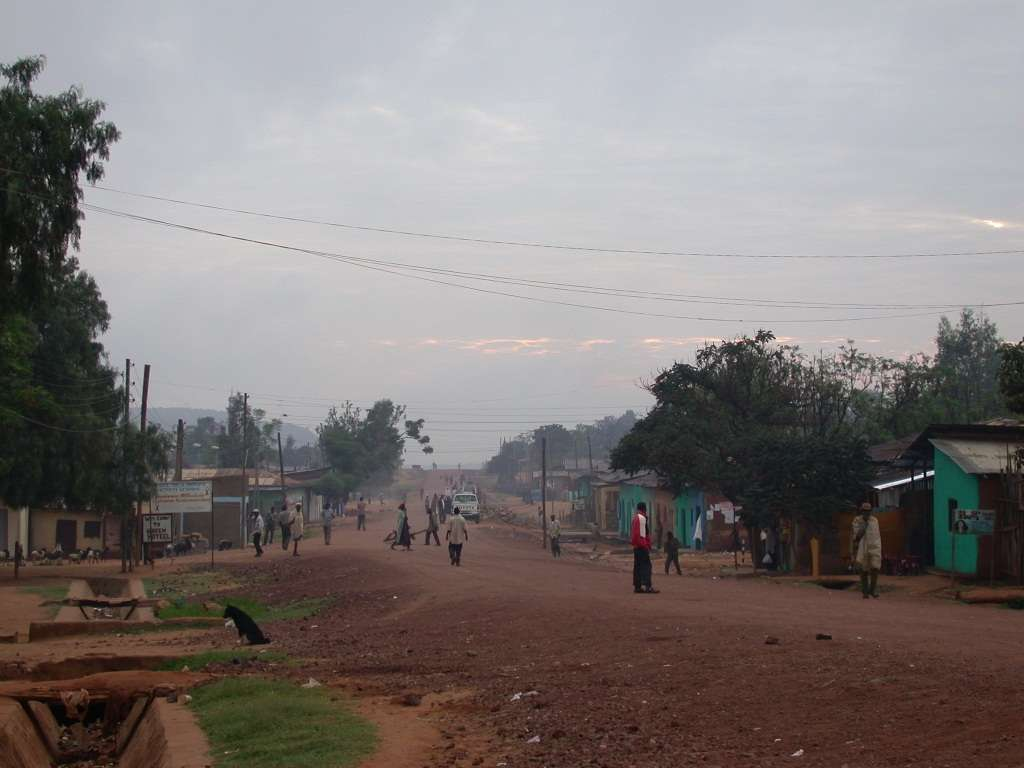 Main street of Yabelo, Ethiopia near the Kenyan border.